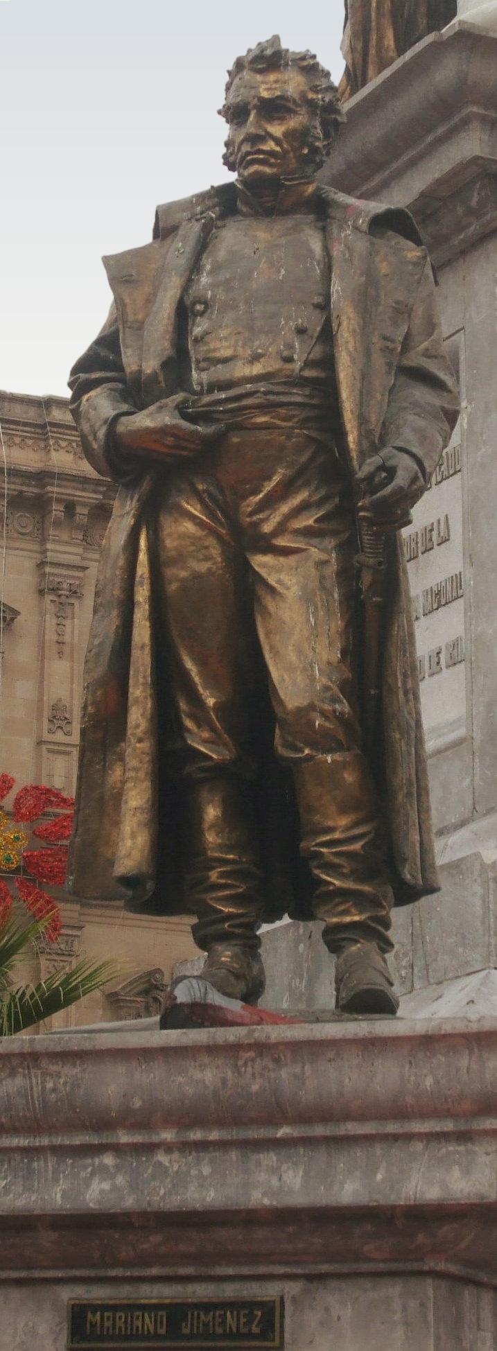 Jimenez Statue, Hidalgo Monument, Chihuahua, Mexico